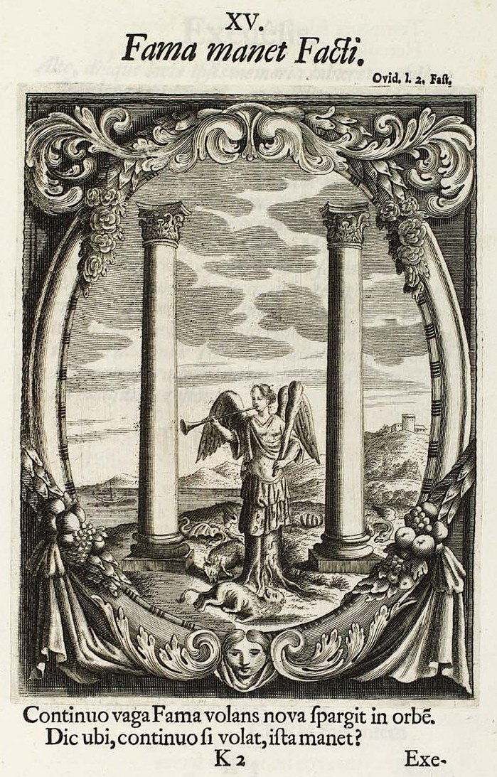 Emblem "Fama manet Facti" from the emblem-collection "Paridis Judicium ..." (Judgement of Paris), edited in Salzburg 1694.